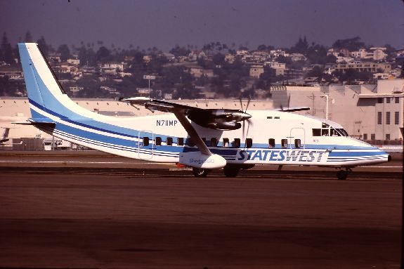 Manufacturer: Short Designation: Short 360 Airline: StatesWest Serial Number: N711MP